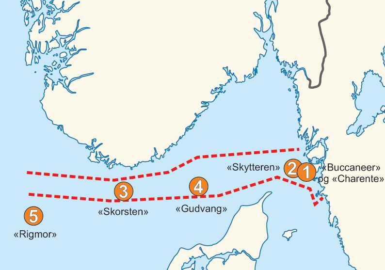 Map over the Kvarstad vessels, the route they took April 1940 Unknown